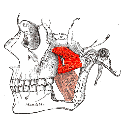 A picture from Gray's anatomy that has been adjusted by User:Helgo13 to highlight the pterygoideus lateralis muscle.